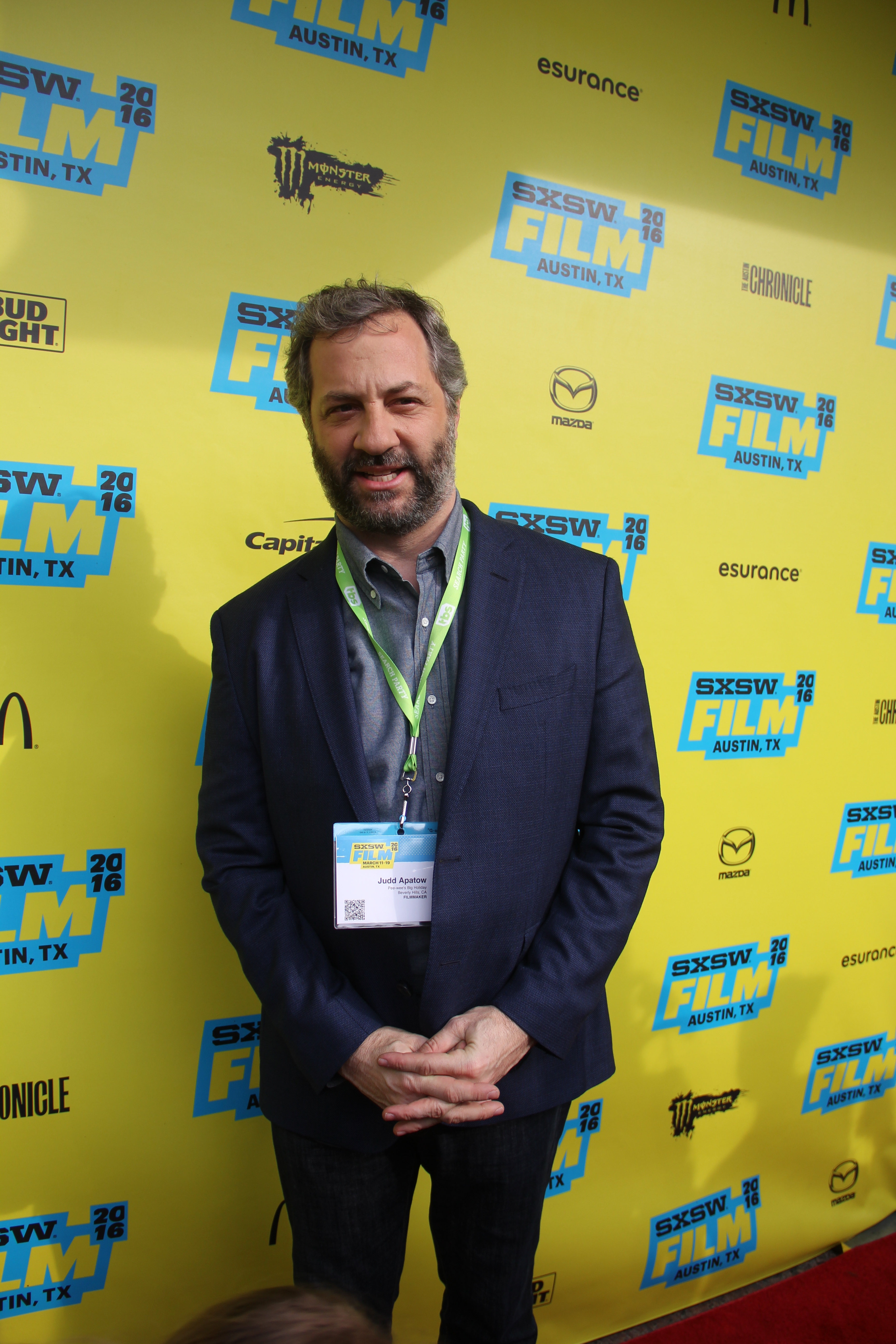 Judd Apatow at the premiere of Pee-Wee's Big Holiday. Taken at SXSW 2016.